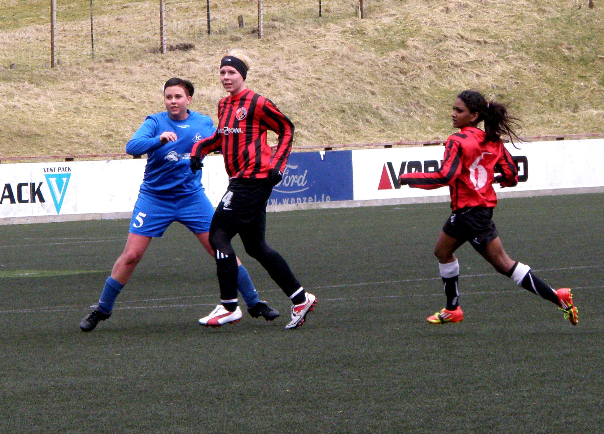 Football match in the women's Faroe Islands Cup 2012 between FC Suðuroy and HB Tórshavn. HB won the match 8-1. The two players from left are sisters: Edith Samuelsen (number 5 in blue) and Sára Samuelsen (number 4 in red/black), they are younger sisters of national player Símun Samuelsen, later in 2012 Edith moved to Tórshavn and started to play for HB Tórshavn as well as her sister and brother. The player from right is Anitha Krogh Mortensen. FC Suðuroy play in blue colors, HB Tórshavn play in red/black colors.